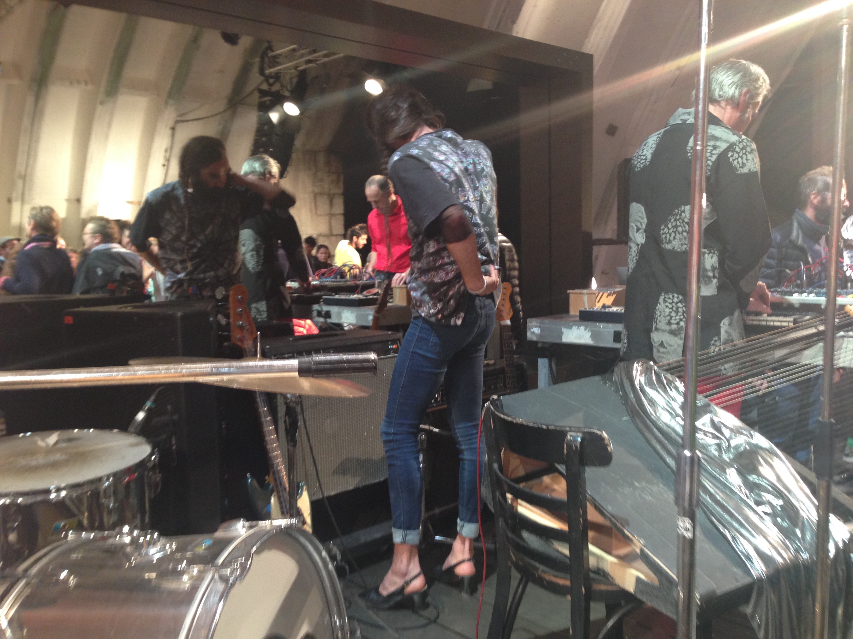 Hans Unstern, Ted Gaier and Thomas Block performing the piece "Not Punk, Pololo" directed by Gintersdorfer/Klaßen at 4th september 2015 in Lärz